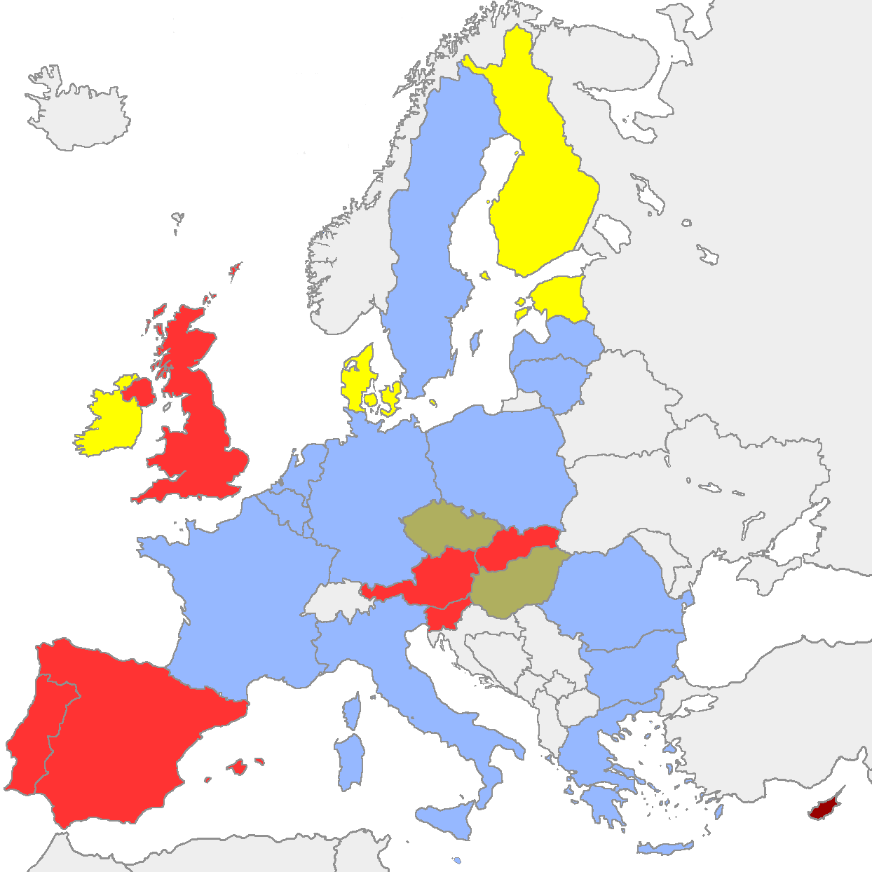 Party affiliations in the European Council